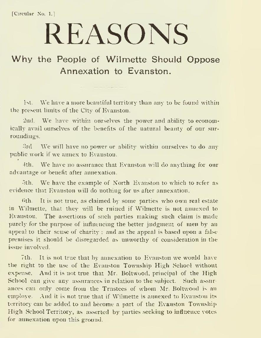 Wilmette and the suburban whirl : a series of historical sketches of life in the suburb from the turn of the century by Mulford, Herbert B Publication date 1956 Publisher Wilmette, Ill. : Wilmette Public Library Collection university_of_illinois_urbana-champaign; americana Digitizing sponsor University of Illinois Urbana-Champaign Contributor University of Illinois Urbana-Champaign Language English Bookplateleaf 0004 Call number 1151568 Camera Canon EOS 5D Mark II Identifier wilmettesuburban00mulf Identifier-ark ark:/13960/t71v6mz0x Ocr ABBYY FineReader 8.0 Openlibrary_edition OL25293649M Openlibrary_work OL16610530W Page-progression lr Pages 150 Possible copyright status Public domain. Published 1923-1963 with notice but no evidence of copyright renewal found in Stanford Copyright Renewal Database. for information. Ppi 500 Scandate 20120501162229 Scanner Scanningcenter il